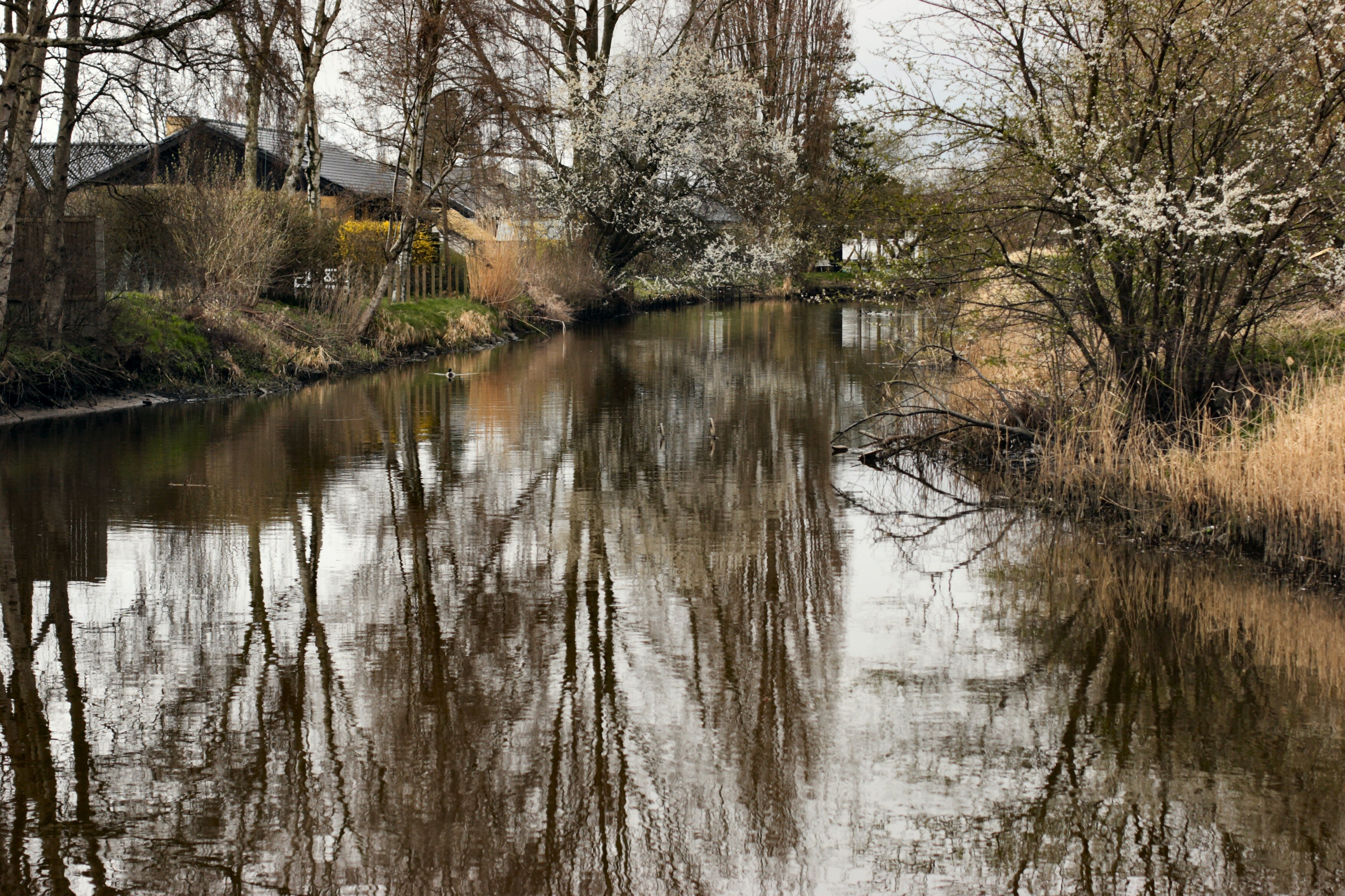 A small river in Aarhus called Egåen